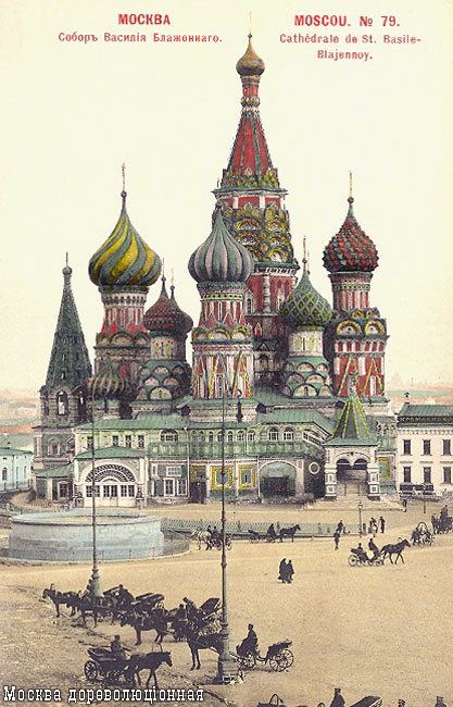 pre-revolutionaty russian postcard of Saint Basil's Cathedral